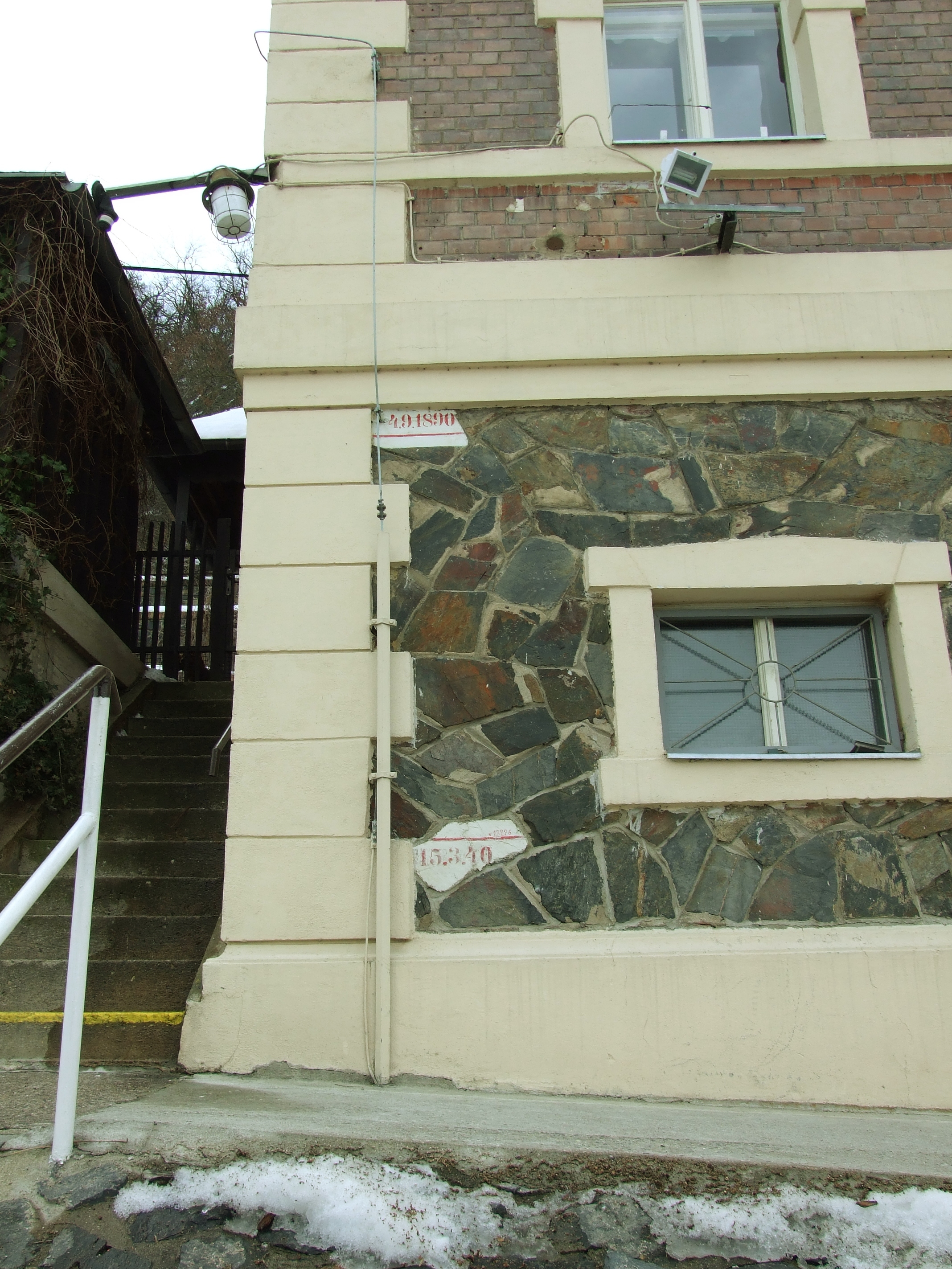 Markings of high water levels in Klecánky, Klecany, village near Prague, Central Bohemian Region, CZhelp